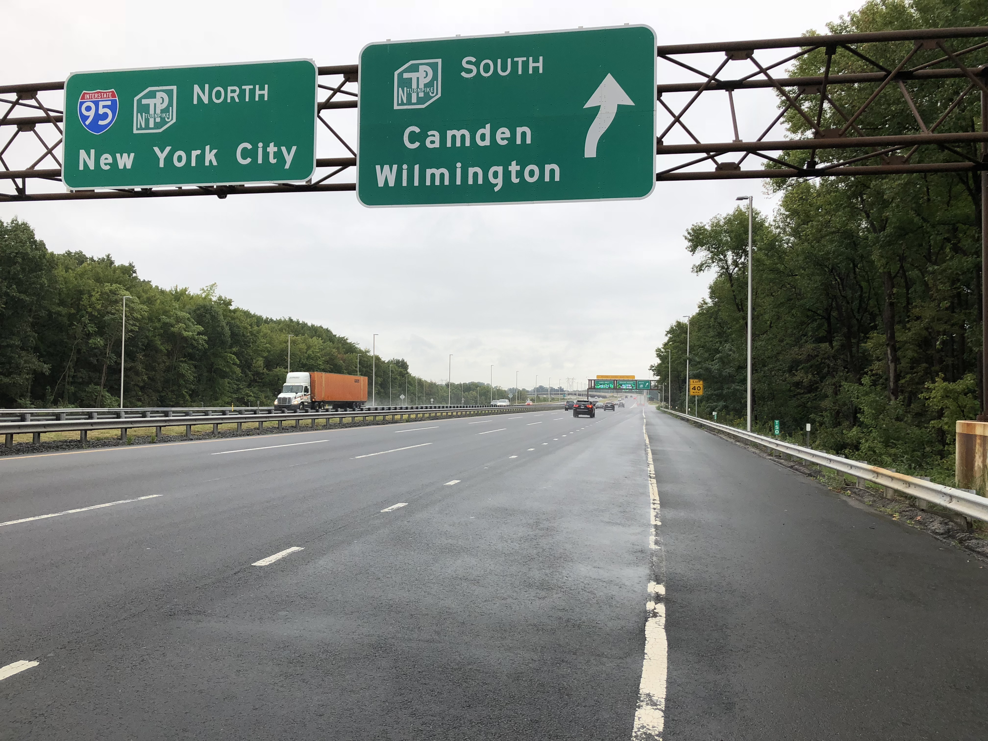 View north along Interstate 95 (New Jersey Turnpike Pennsylvania Extension) at the exit for the New Jersey Turnpike SOUTH (Camden, Wilmington) in Mansfield Township, Burlington County, New Jersey